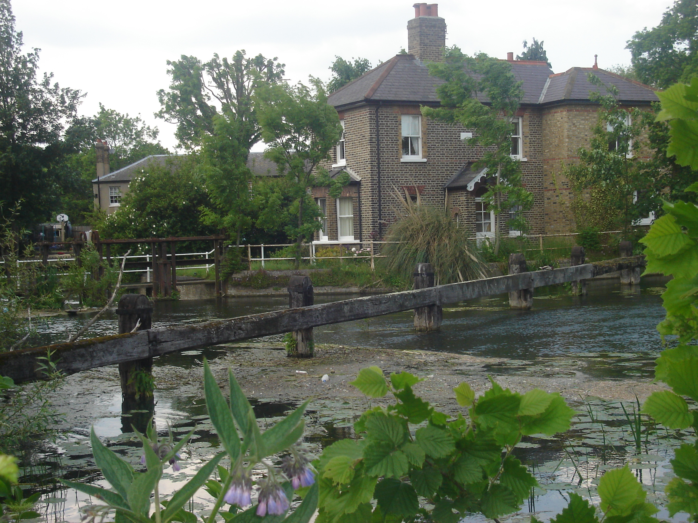 Above Newmans Weir, close to Enfield Island Village